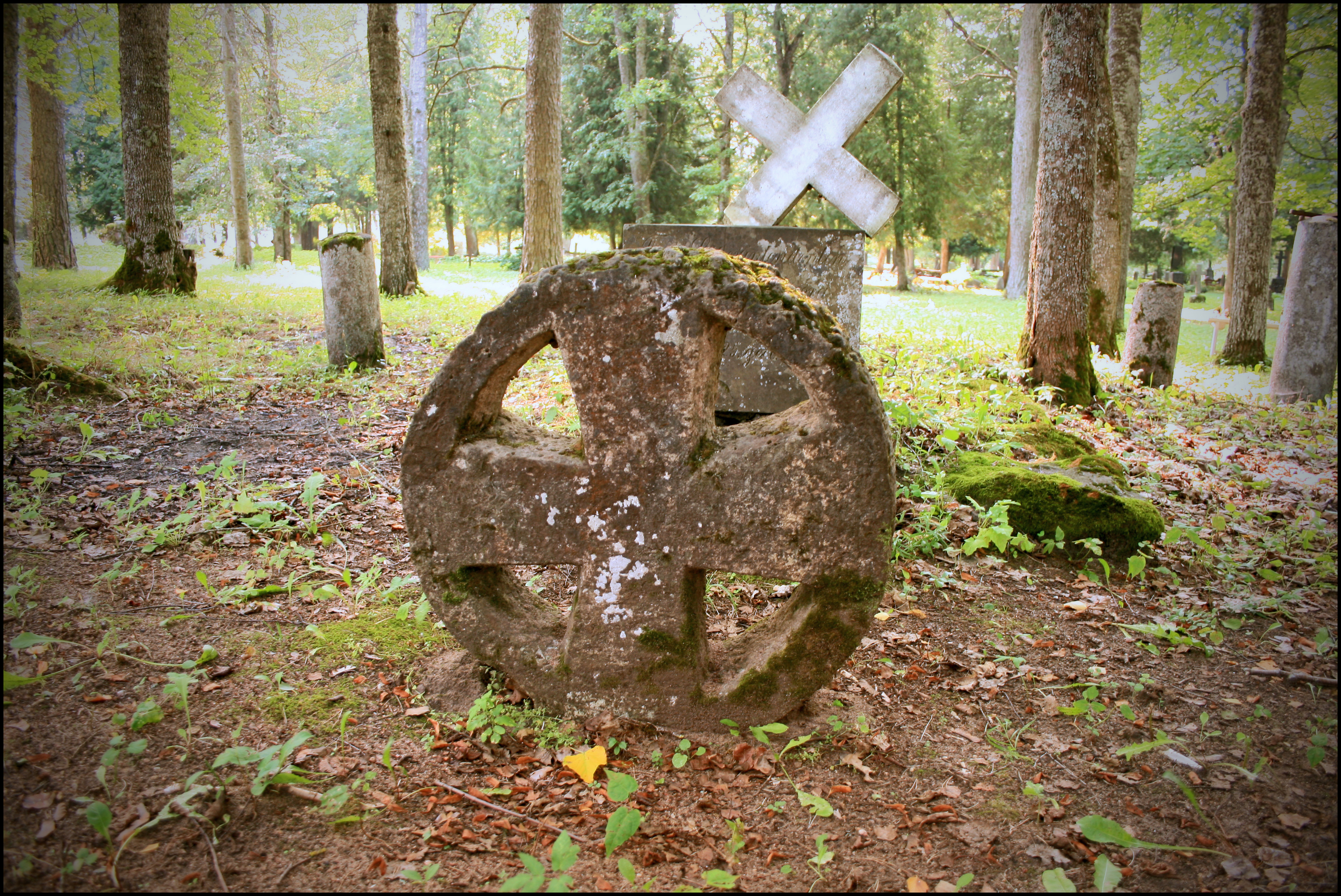 circumference tomb cross in Meņģele / Meņģeles riņķa krusts